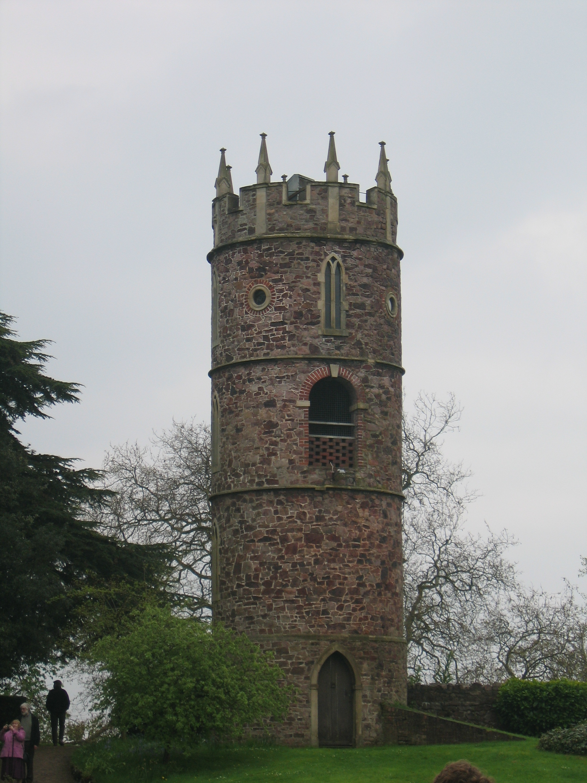 Tower in the grounds of Goldney Hall, Bristol Now a folly, this was originally built as the engine house for a Newcomen beam engine. The beam emerged through the open central window.